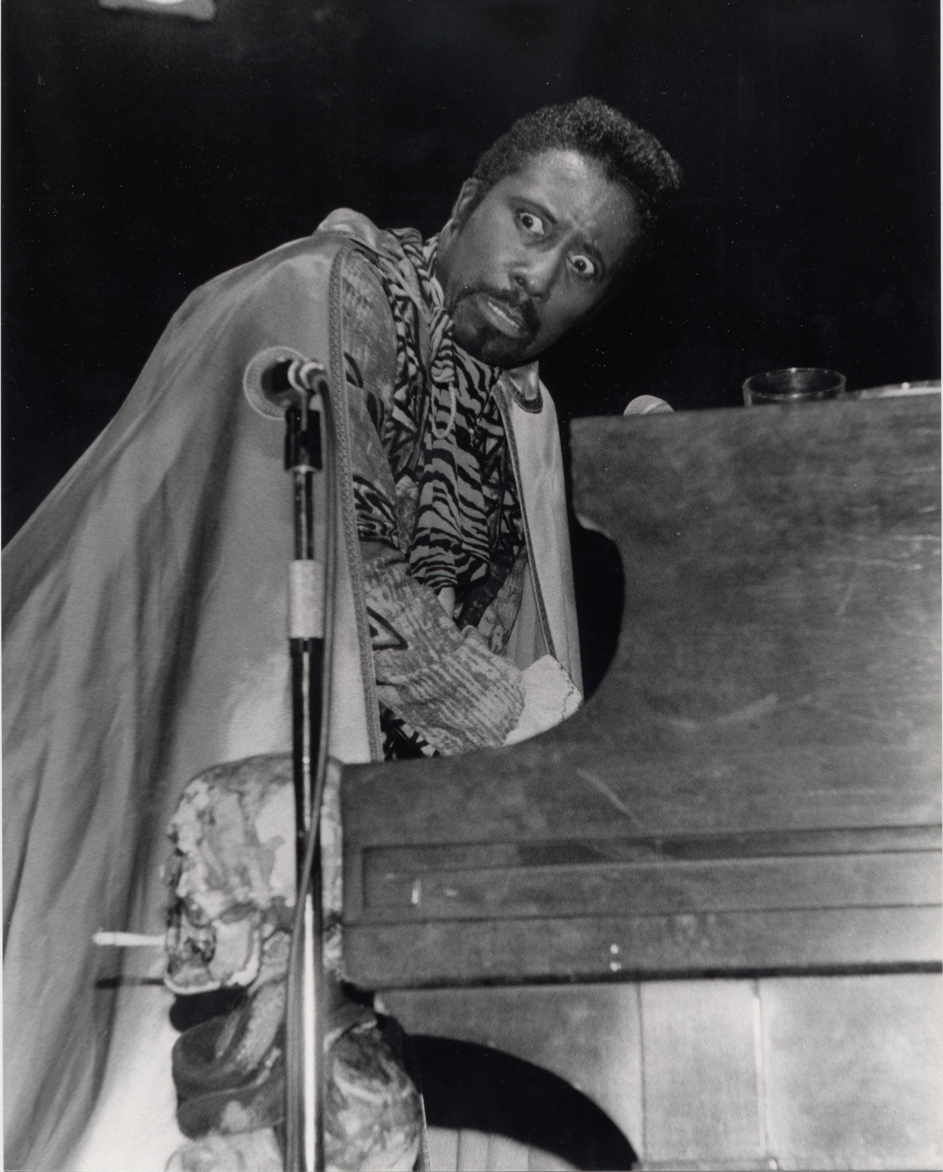 Screamin' Jay Hawkins at The Edge, Toronto, April 1, 1979